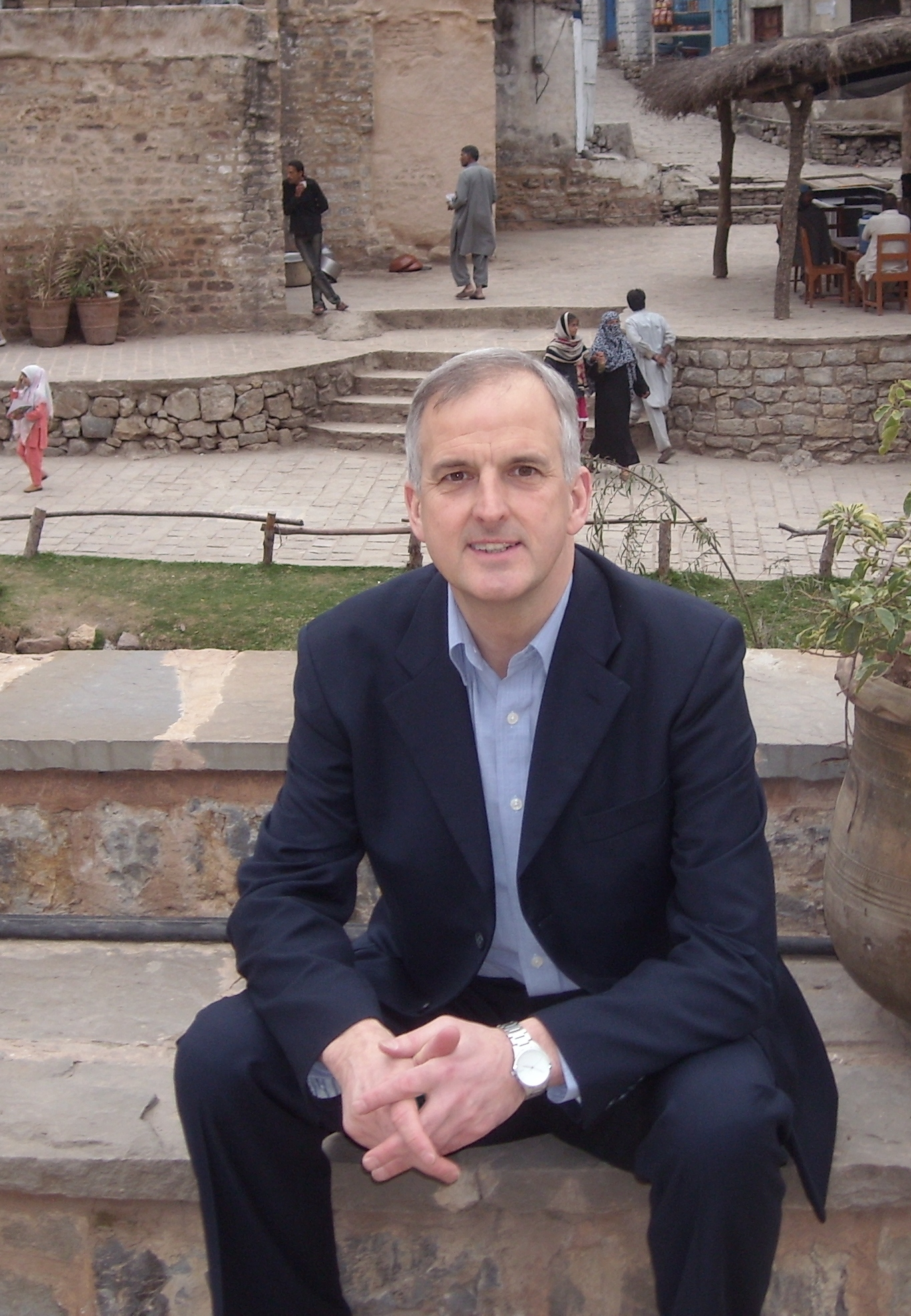 Robert Evans pictured in Pakistan 2009